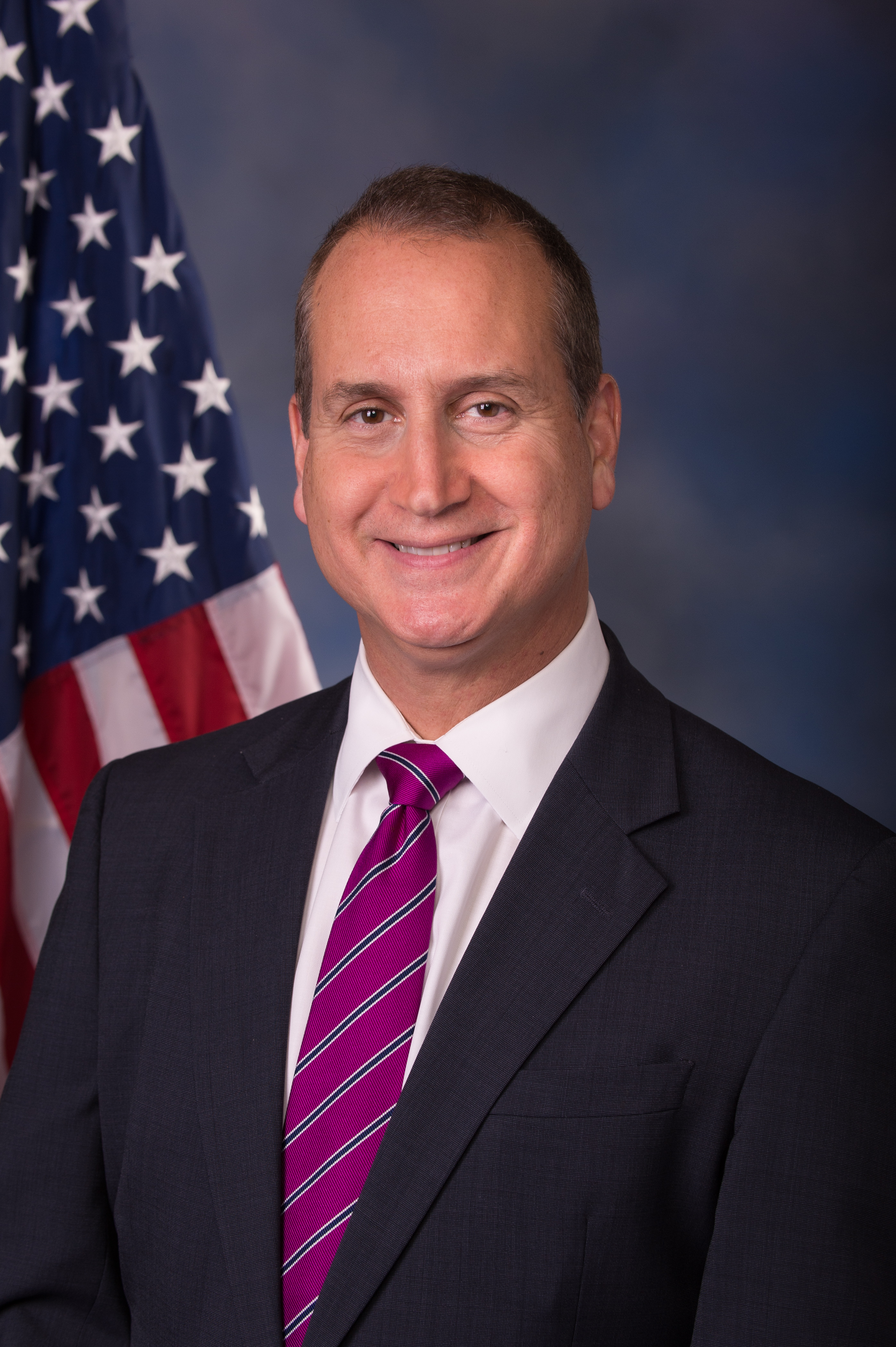 Mario Díaz-Balart official photo